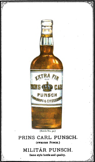 Bottle of punsch liquor circa 1891. Picture taken from the 1891 liquor catalog named "Liqueurs Fines", 1891, Illustrated Catalog, by Cook & Bernheimer, NY.